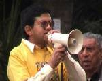 Babu Gogineni at Dr. Shaikh's Campaign